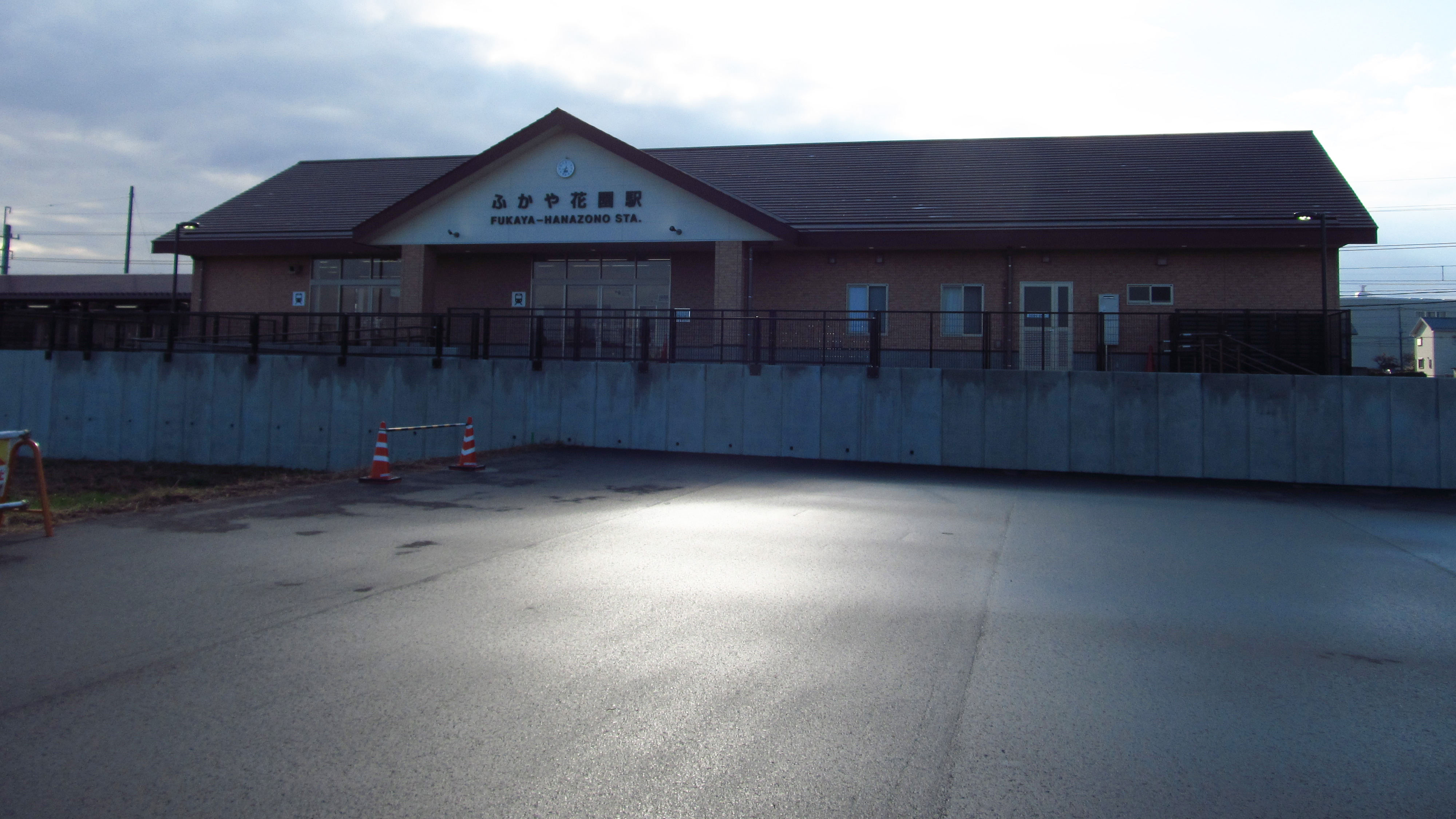 The building of Fukaya-Hanazono Station in Saitama Prefecture, Japan